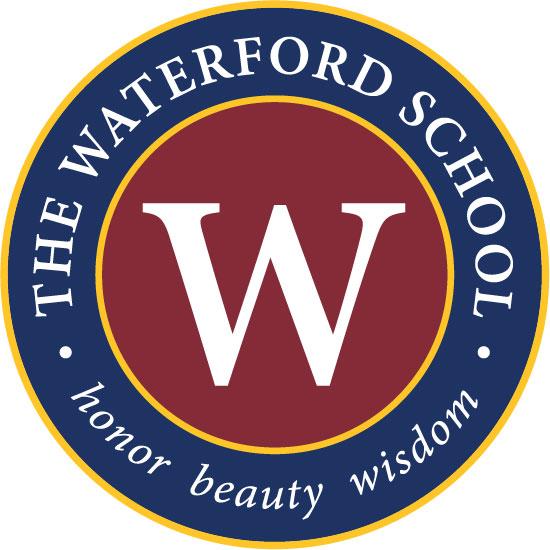 The Waterford School Seal